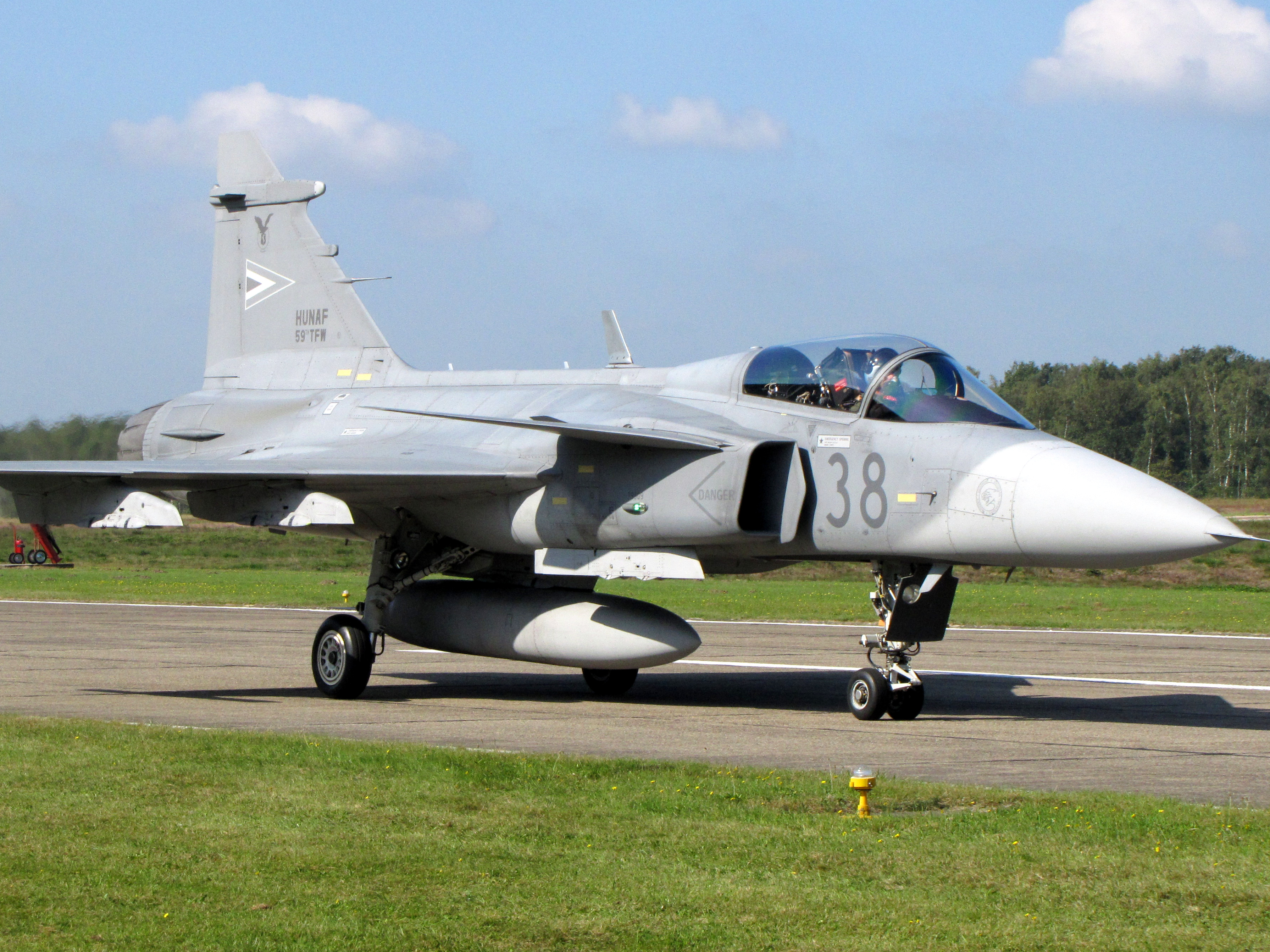 Hungary Air Force Saab JAS 39 Gripen 38 s/n 39-3309